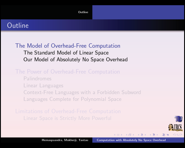 Beamer screenshot